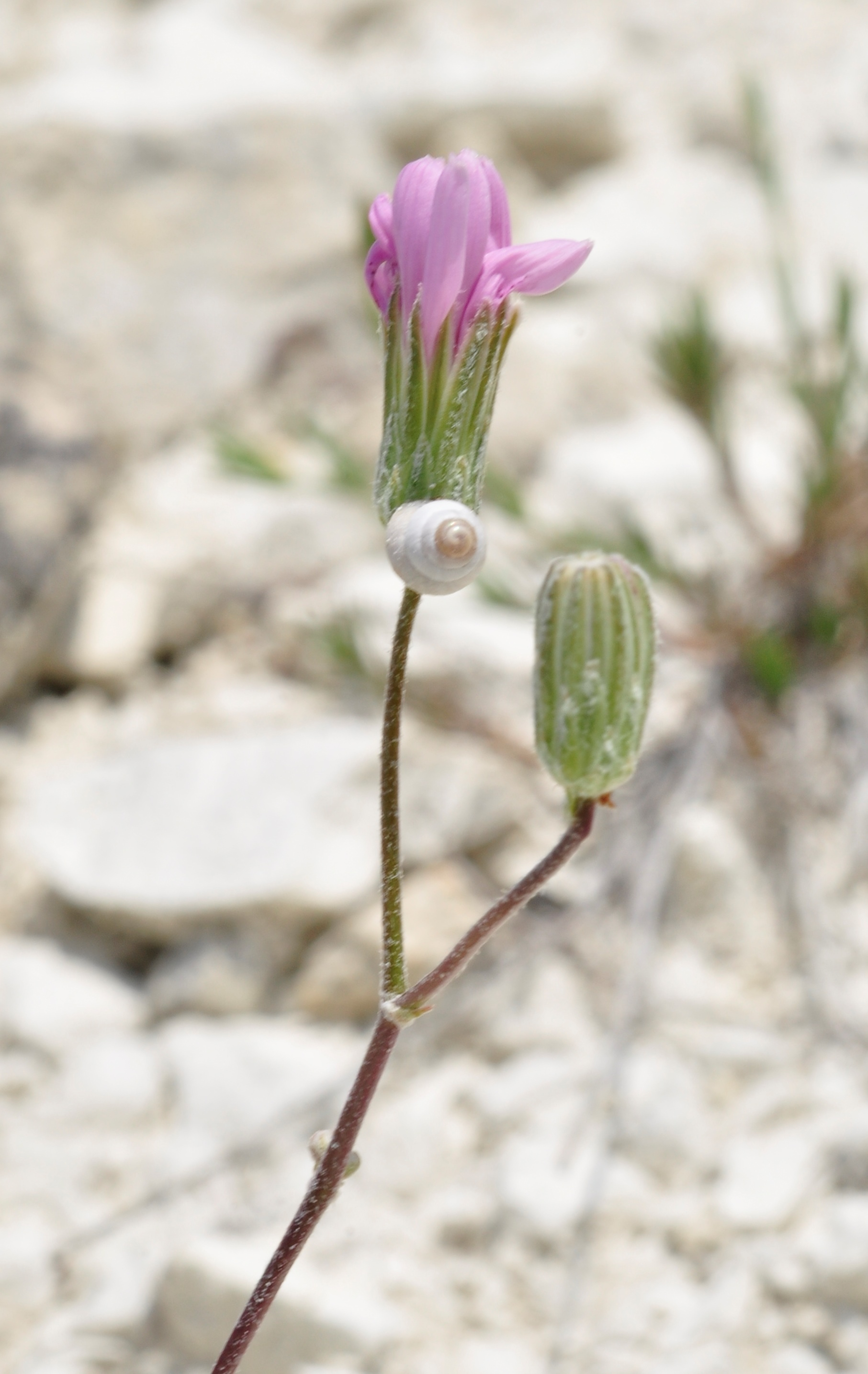 Purple hawksbeard (Crepis purpurea (Willd.) M.Bieb.), a rare species of the Red Book of Ukraine protected by the Berne Convention. The plant was found on marlstone slopes of Burunduck-Kaya Mountain, Kubalach Ridge, Autonomous Republic of Crimea, Ukraine. June 2017. #flora_taurica